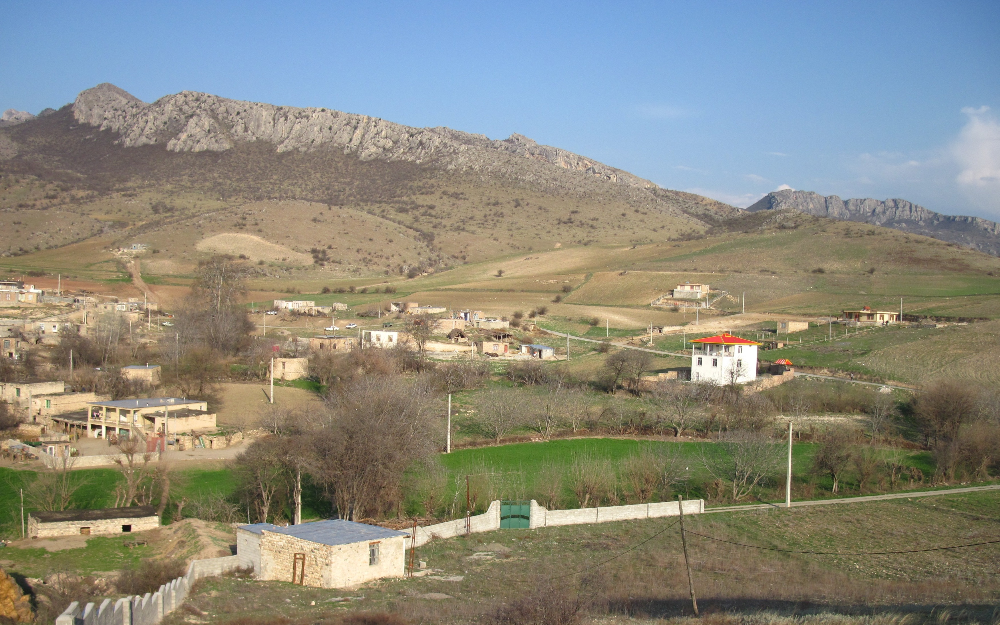 This photo of the village, Qareh Quch, was taken by Ravanbakhsh Leysi.